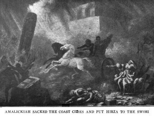 This illustration was published in the 1910 edition of the book entitled Cities in the Sun.